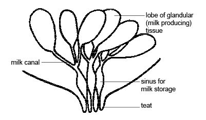 By Ruth Lawson. Otago Polytechnic.